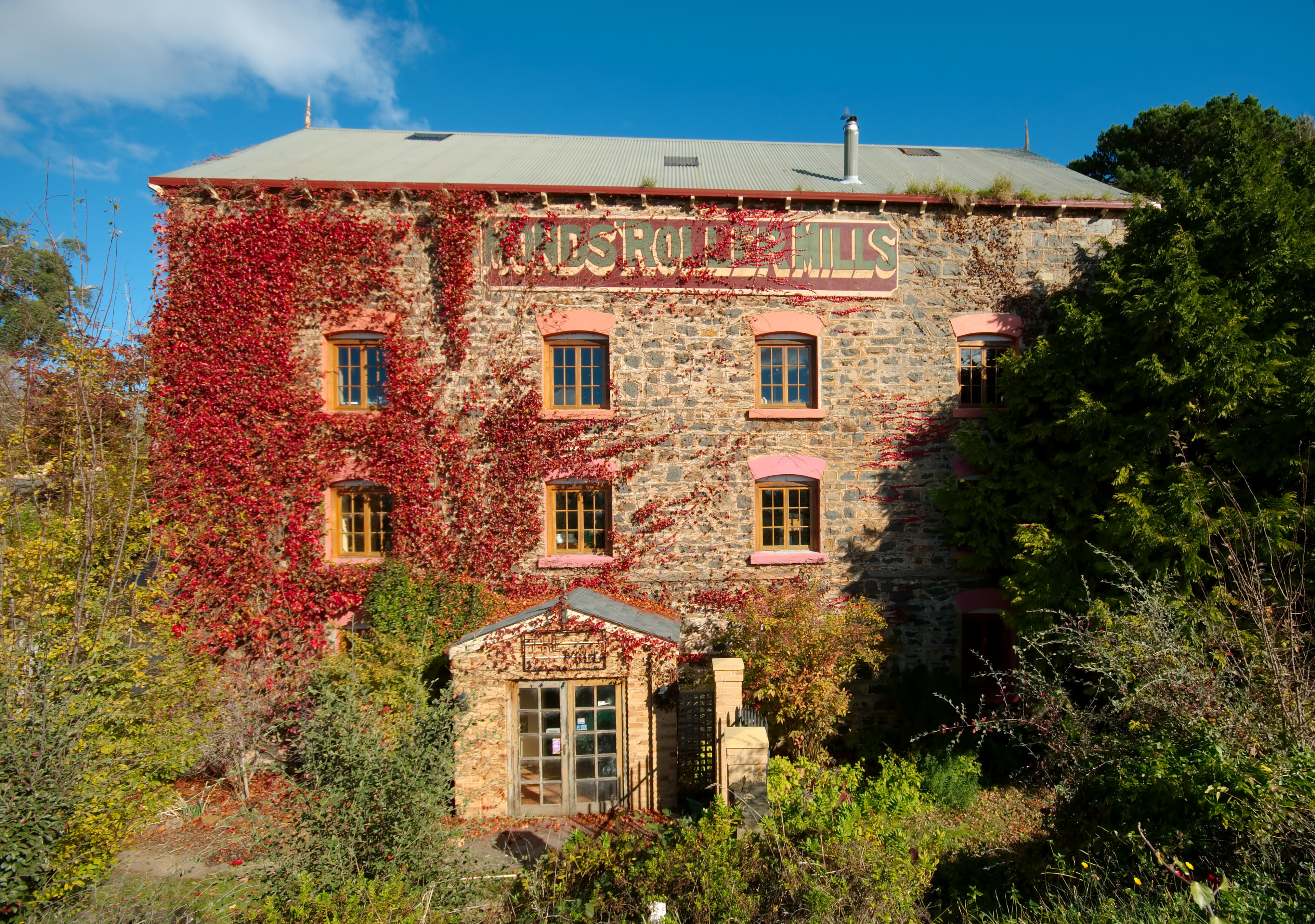 the former Mond's Roller Mill building, in Carrick, Tasmania, Australia. Image taken from the contemporary elevated road level.